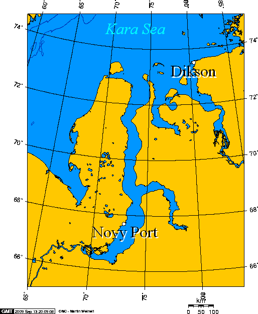 Novy Port and Dikson -- Russian Arctic ports on the Kara_Sea. They lie in the estuaries of the Ob River and Yenisei River. The Ob River is said to have the longest estuary of any river in the world.